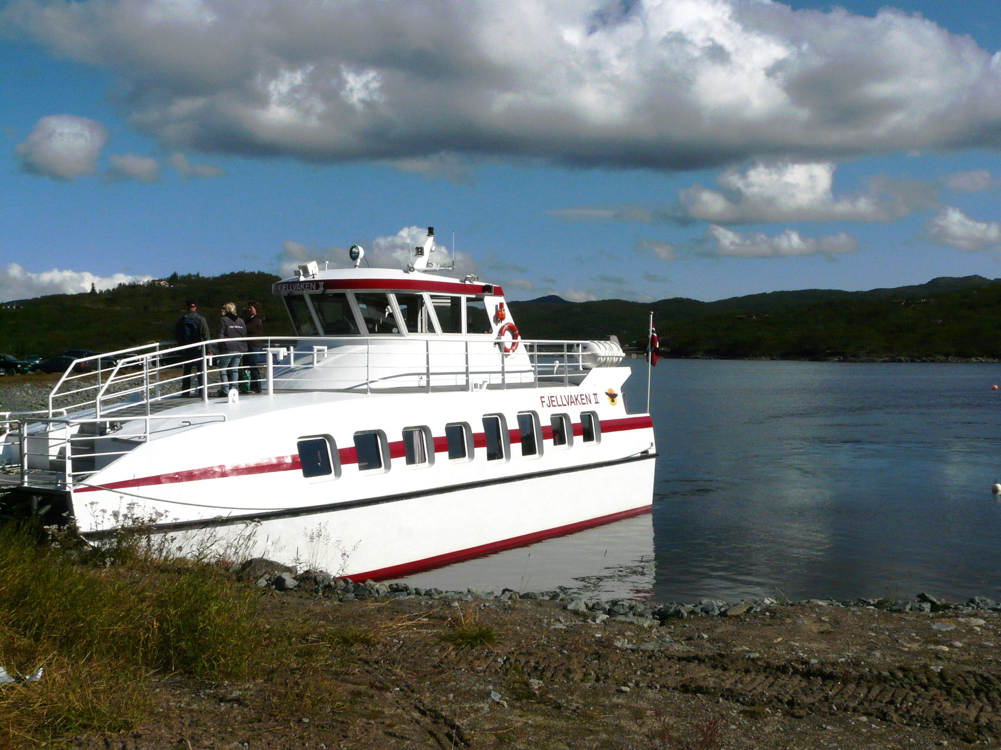 Mosvatnet, Bamble